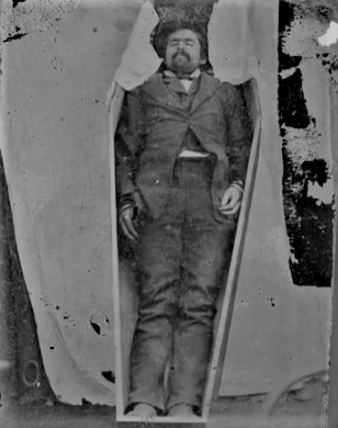 A photograph of executed serial killer Stephen Dee Richards, published in The National Police Gazette on May 10, 1879.